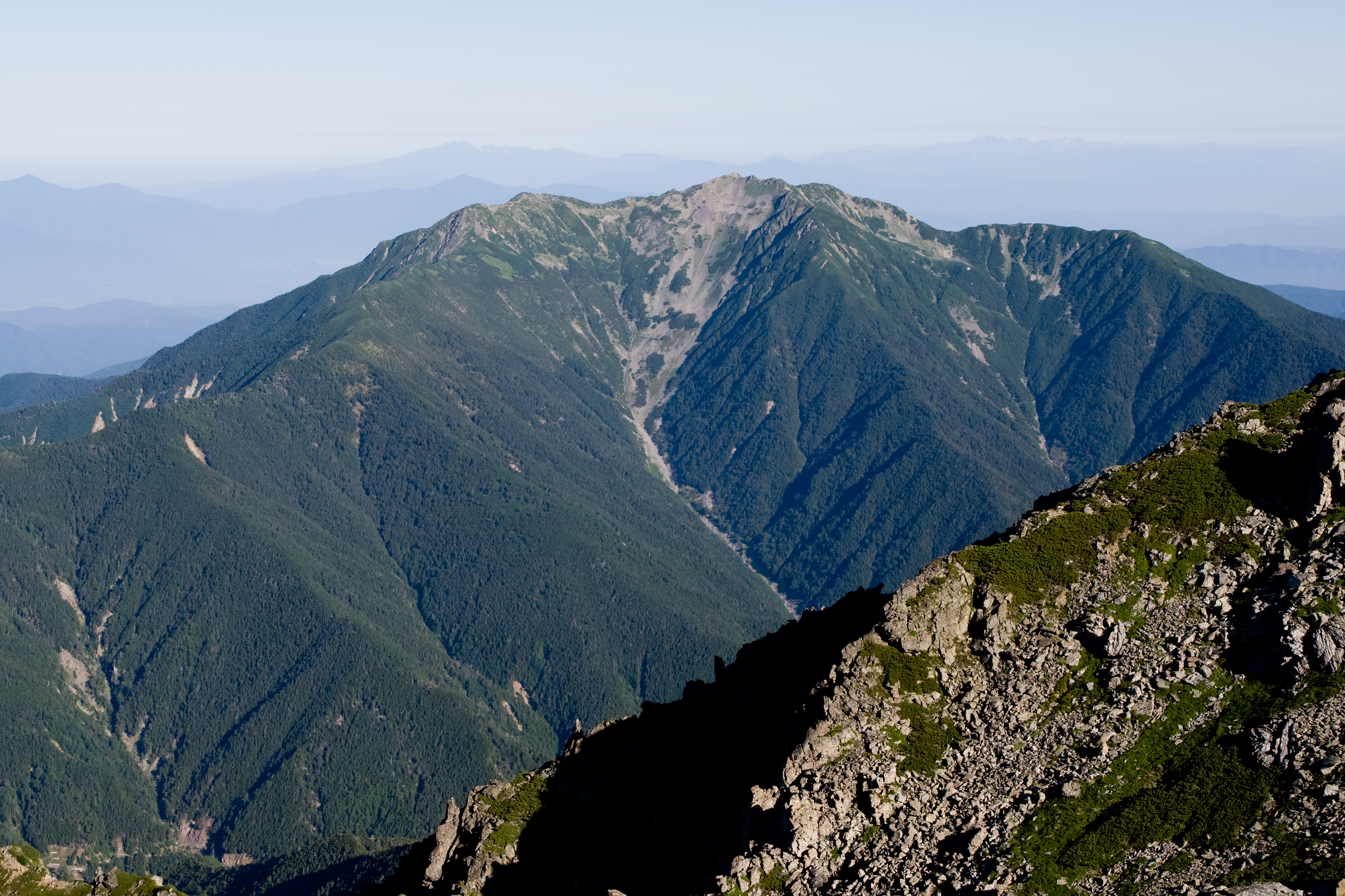 Mt. Senjogatake as seen from Mt. Kitadake, Minami-alps City, Yamanashi Pref., Japan.